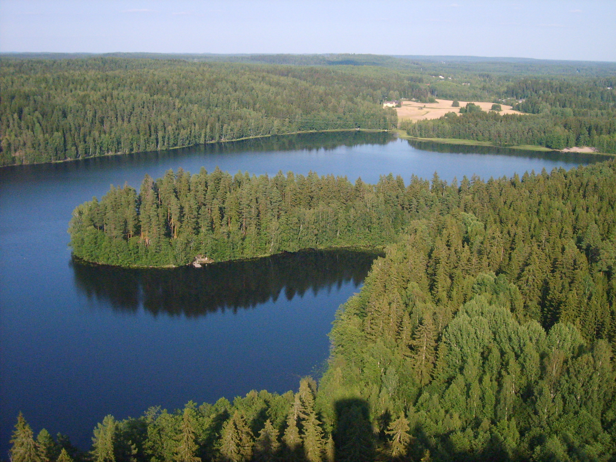 View of the Aulanko Nature Reserve next to Hämeenlinna, Finland from the top of the tower there